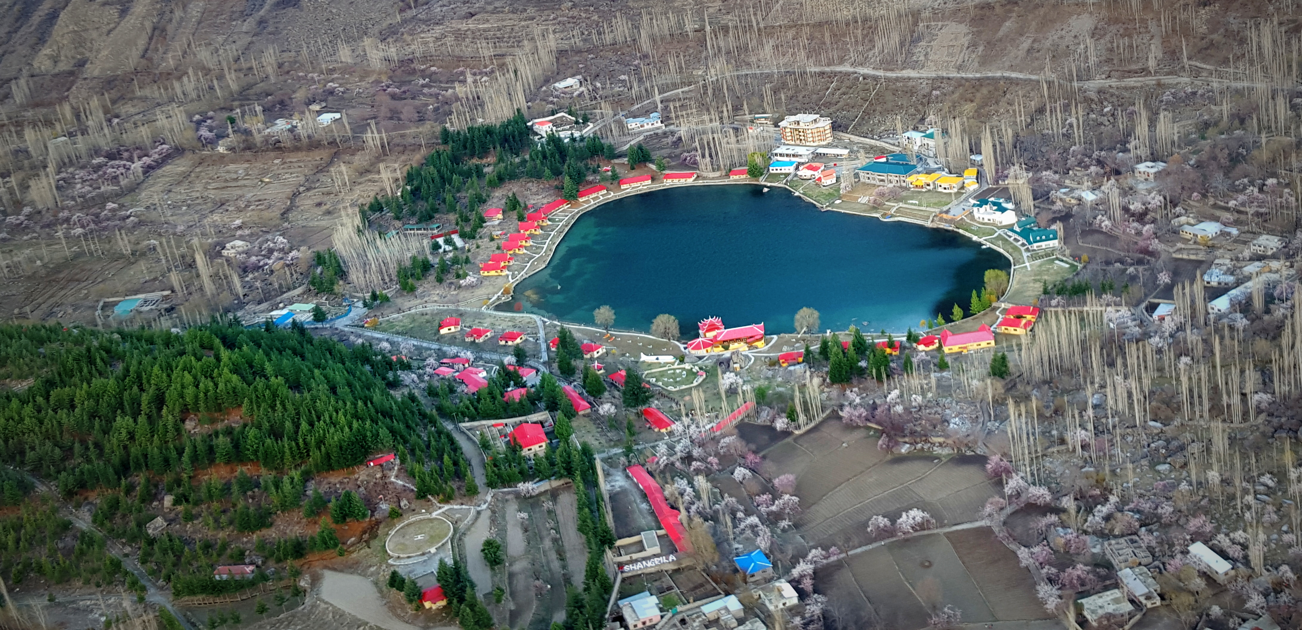 The famous heart shaped lake in Skardu Valley - Shangrilla Resort and Hotel